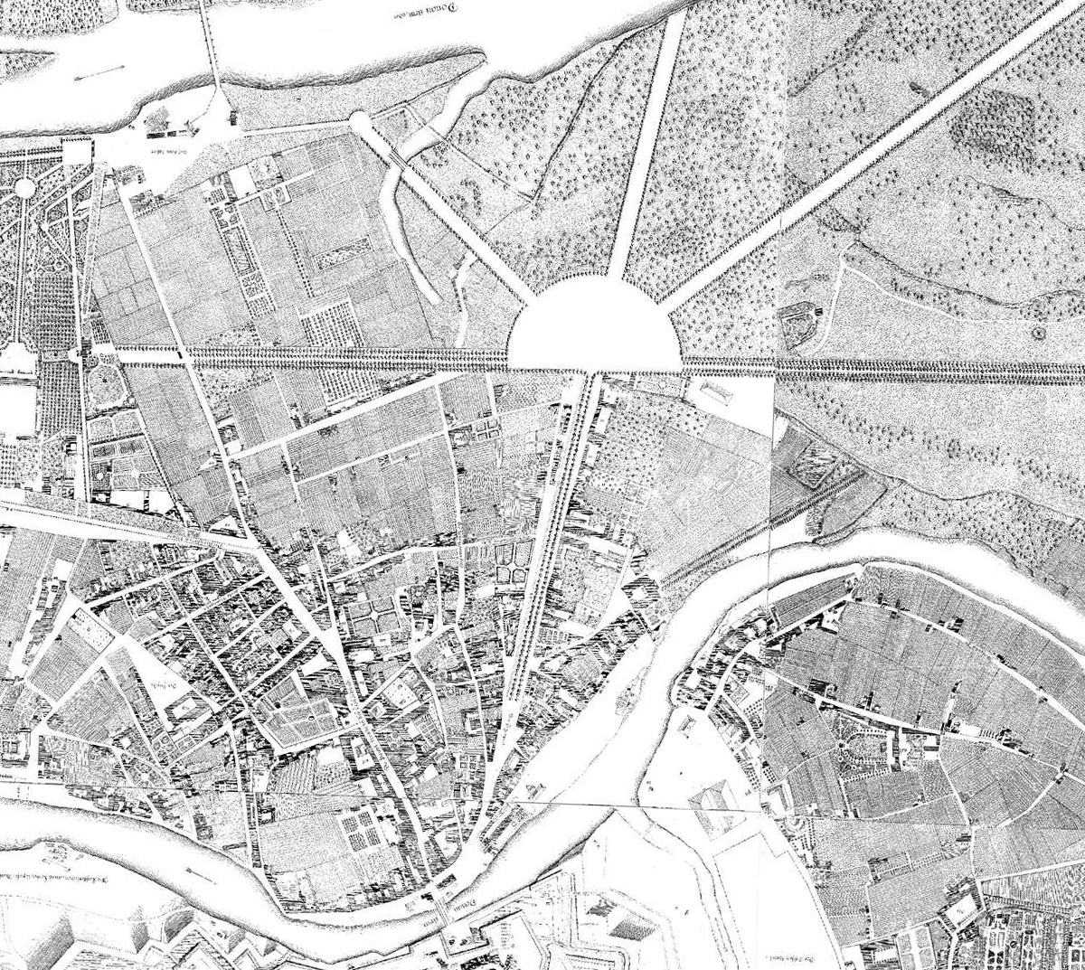 Map of Vienna approx. 1773, Detail (Praterstern). Electrically turned to show north up.